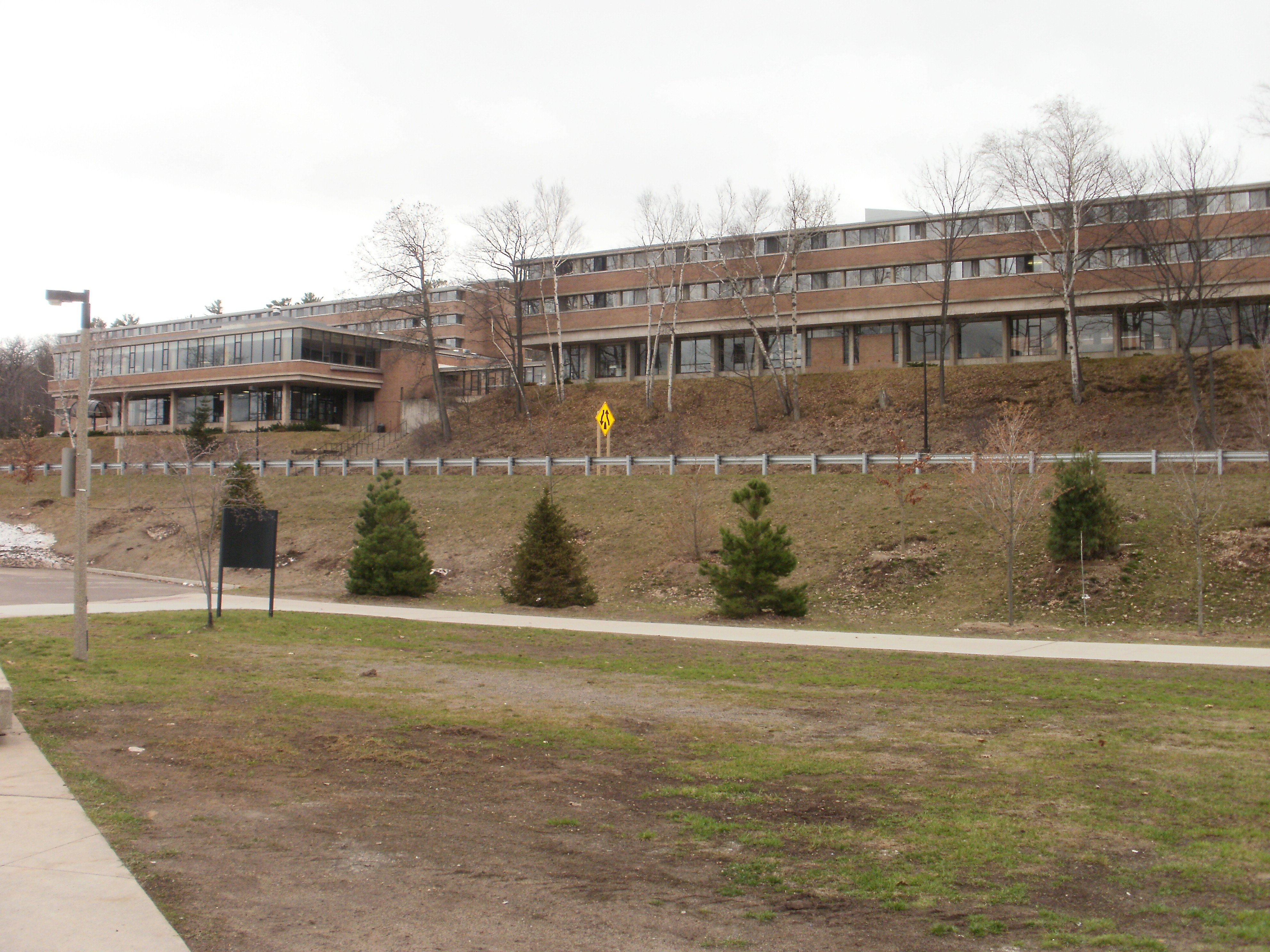 McNair Hall, a residence hall on the campus of Michigan Technological University